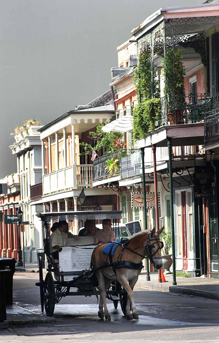 New Orleans. Mule carriage on 600 block of Chartres Street, French Quarter.